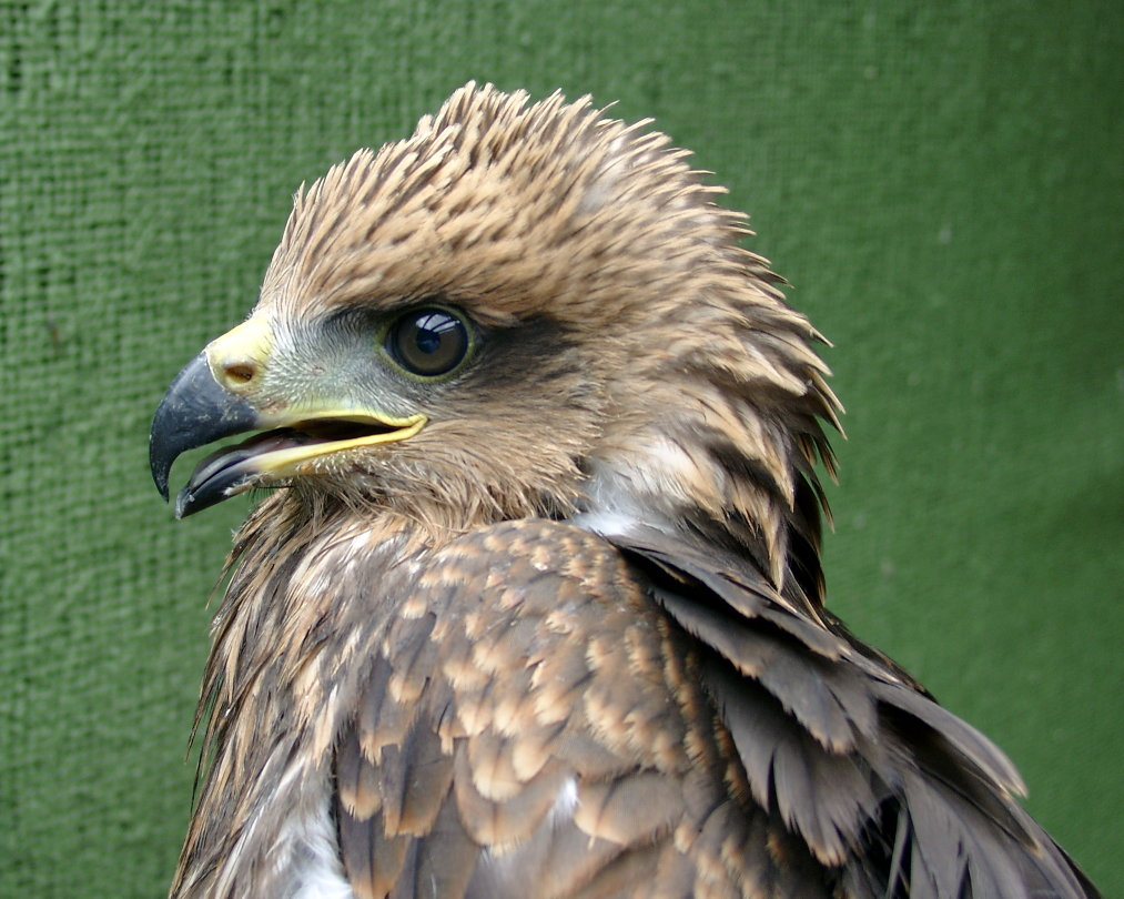 Black Kite